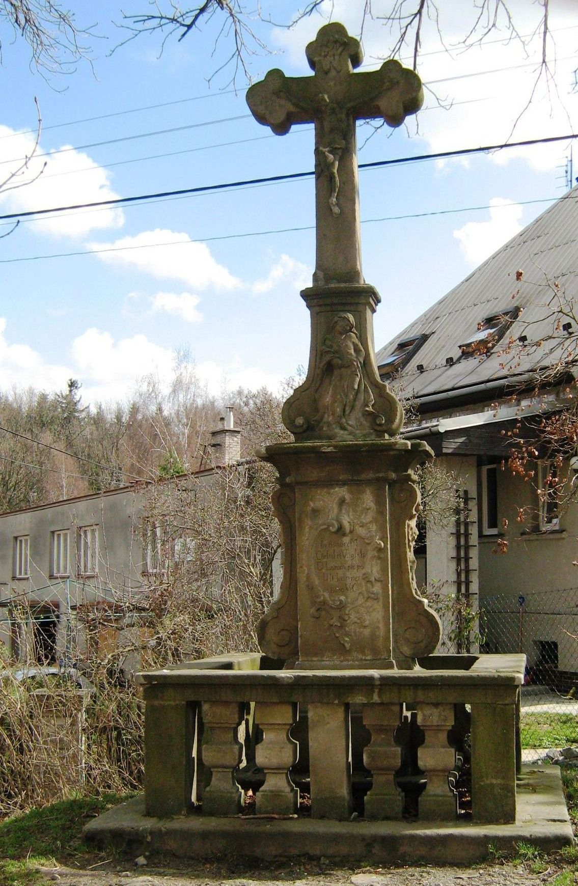 Stone cross at Svetlovska street in Proskovice from 1775